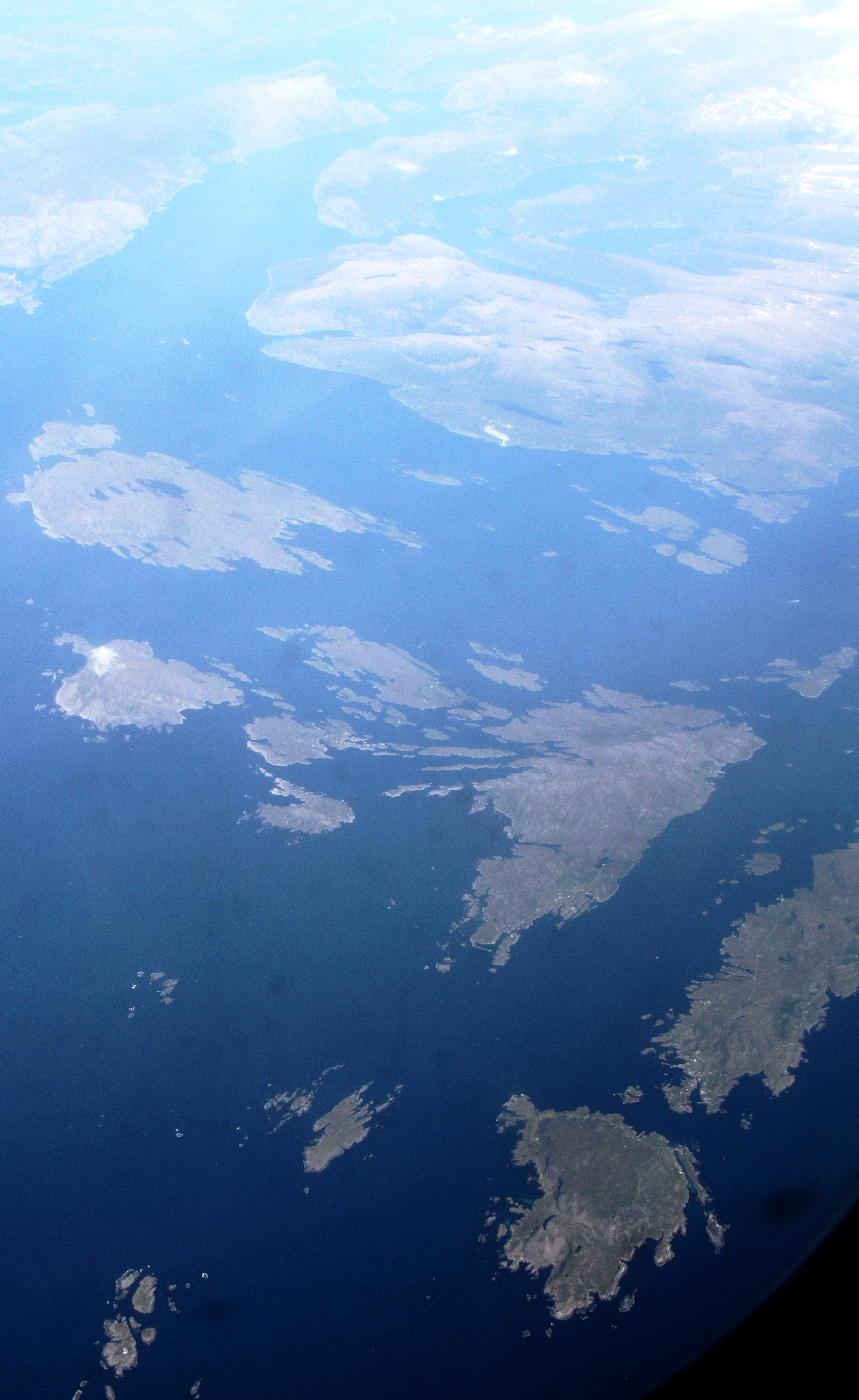 Aerial view from the south / southwest, of the coastal parts of the municipality of Flora, Sogn & Fjordane fylke (county), western Norway.